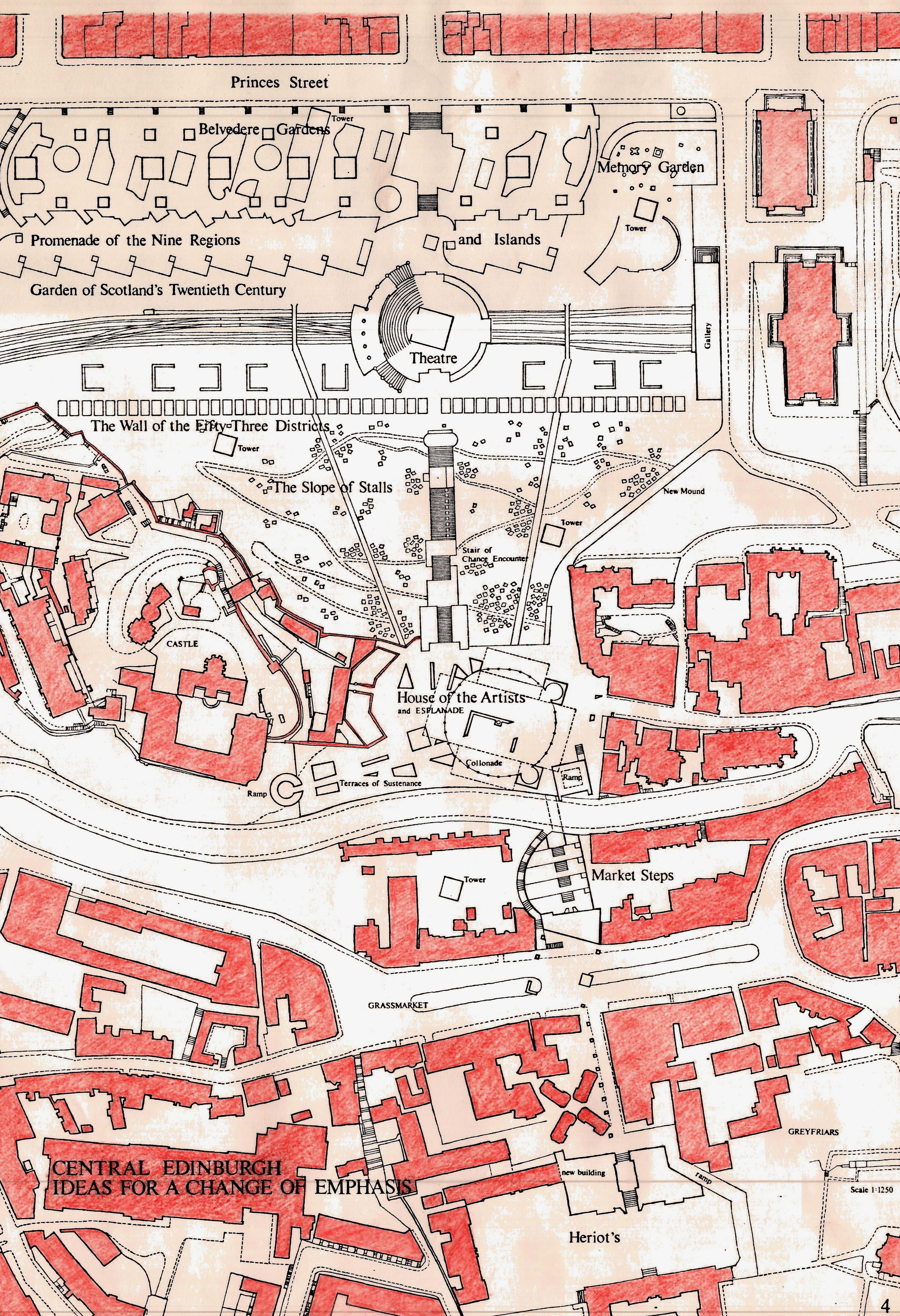 Featured images for Douglas Jarvie Clelland Wikipedia article